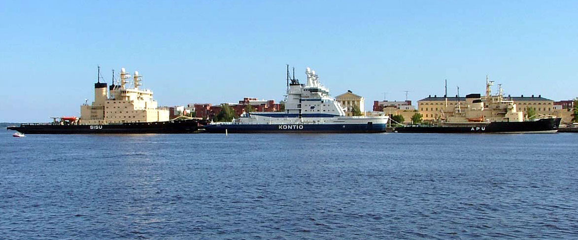 Finnish icebreakers docked for the summer season at Katajanokka, Helsinki. There are 6 icebreakers here: Sisu and Urho; Kontio and Otso; Apu and Voima. Photographed by Jonik from the near-by Tervasaari island in August 2004. Kontio: IMO Number: 8518120 MMSI Number: 230251000 Callsign: OIRV Length: 100 m Beam: 24 m Otso: IMO Number: 8405880 MMSI Number: 230252000 Callsign: OIRT Length: 99 m Beam: 25 m Sisu: IMO Number: 7359656 MMSI Number: 230289000 Callsign: OHMW Length: 105 m Beam: 24 m Urho: IMO Number: 7347615 MMSI Number: 230290000 Callsign: OHMS Length: 105 m Beam: 24 m Apu: IMO Number: 6920094 MMSI Number: Callsign: OHMP Length: 87 m Beam: 21